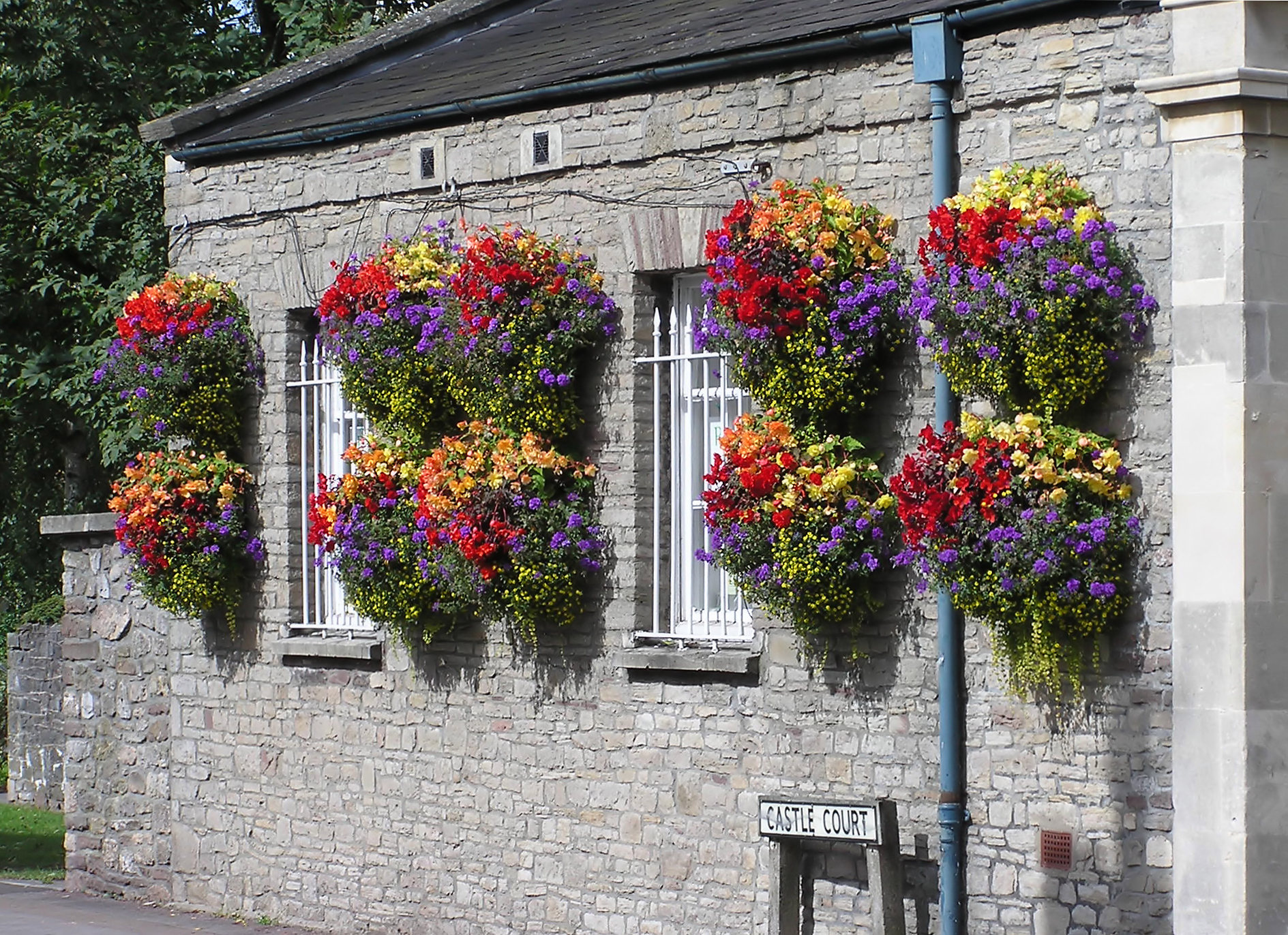 Hanging baskets in the town of Thornbury, South Gloucestershire, England. Taken by Adrian Pingstone in September 2004 and placed in the public domain.